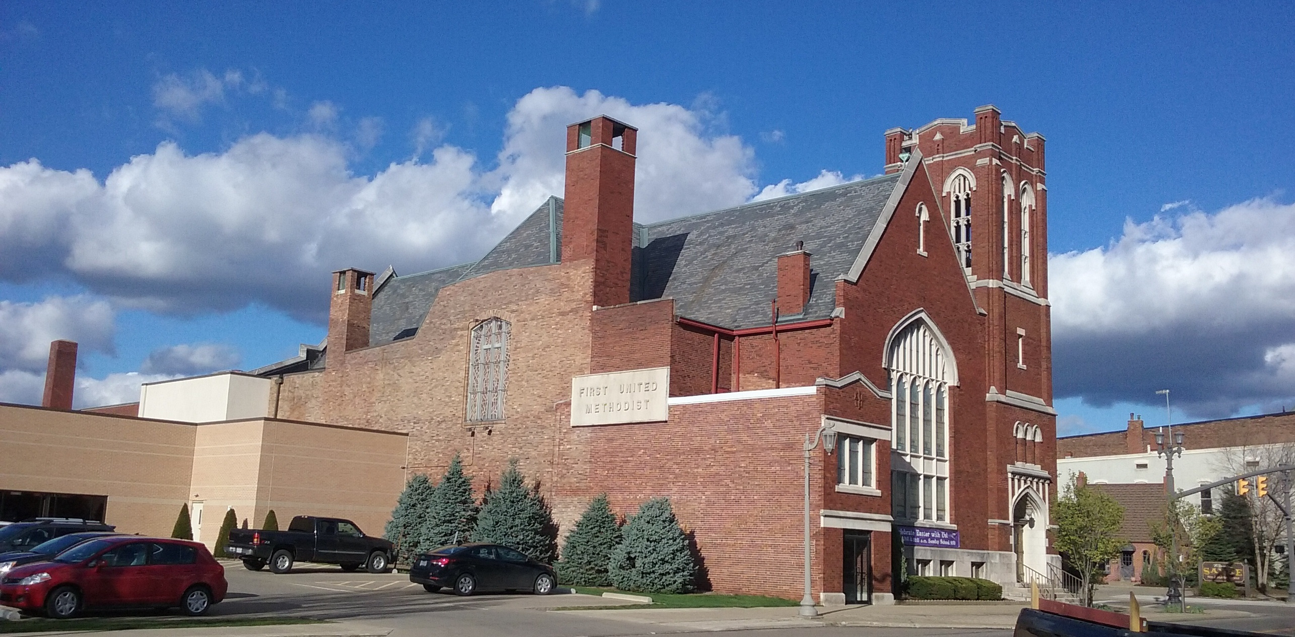 First United Methodist Church in New Philadelphia, Ohio